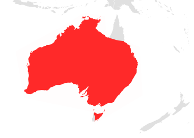 Distribution of Chalinolobus gouldii